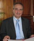 Professor B. Boëne